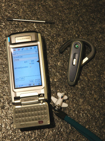 A SonyEricsson P910i mobile phone is linking with HBH-600 cordless headset via BlueTooth interface.